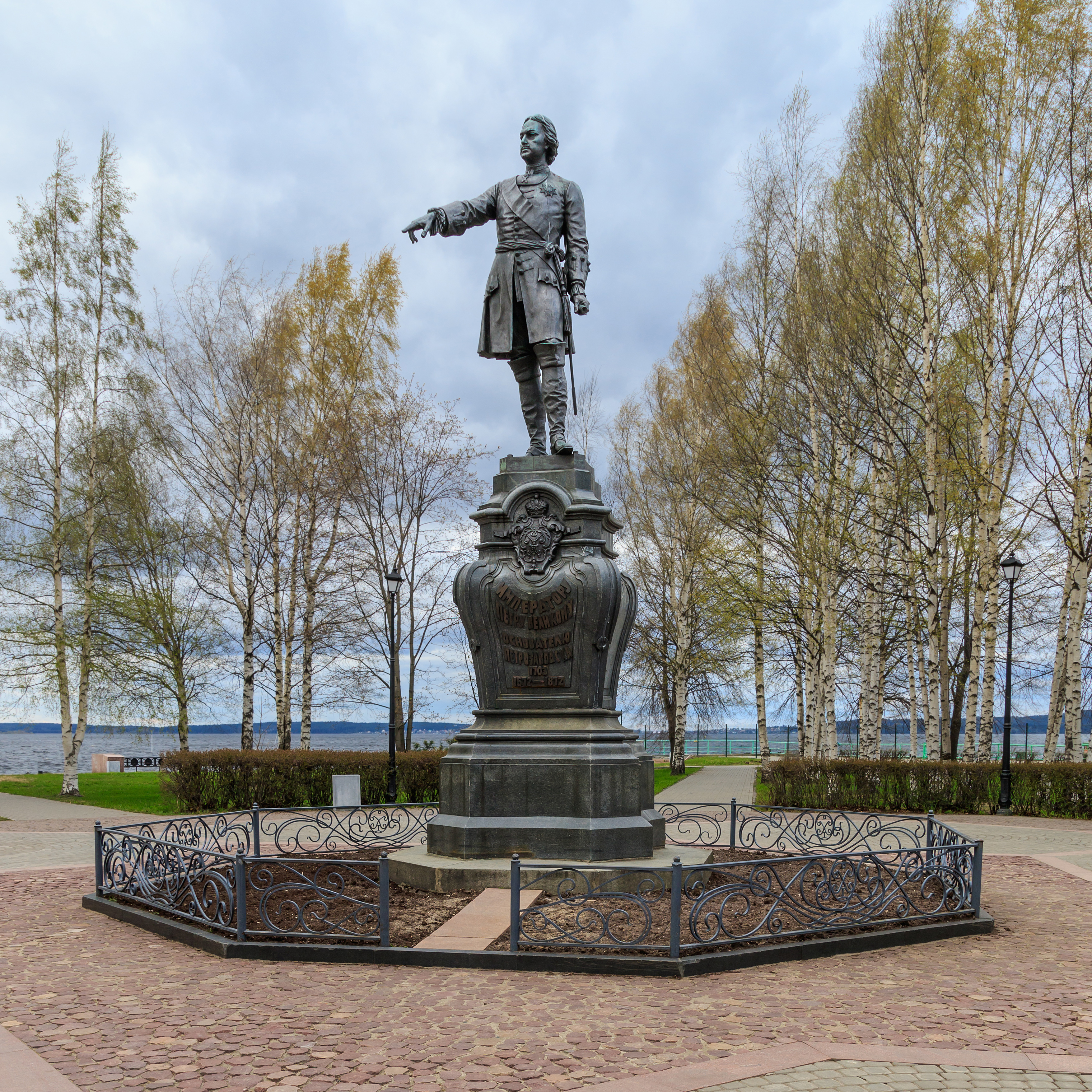 Monument to Peter I of Russia in Petrozavodsk, Republic of Karelia (Russia).